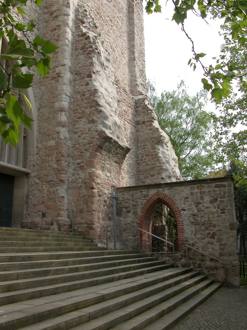 Brunswick, Germany: St. Giles’ as seen from the west with tower stumps.